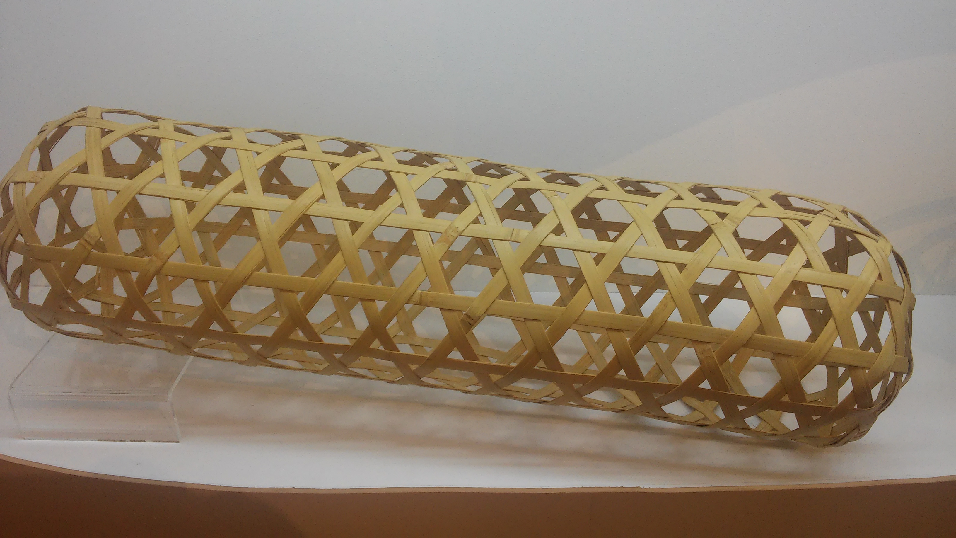 HKCL Bamboo cage 竹織籠 handmade exhibition September 2016